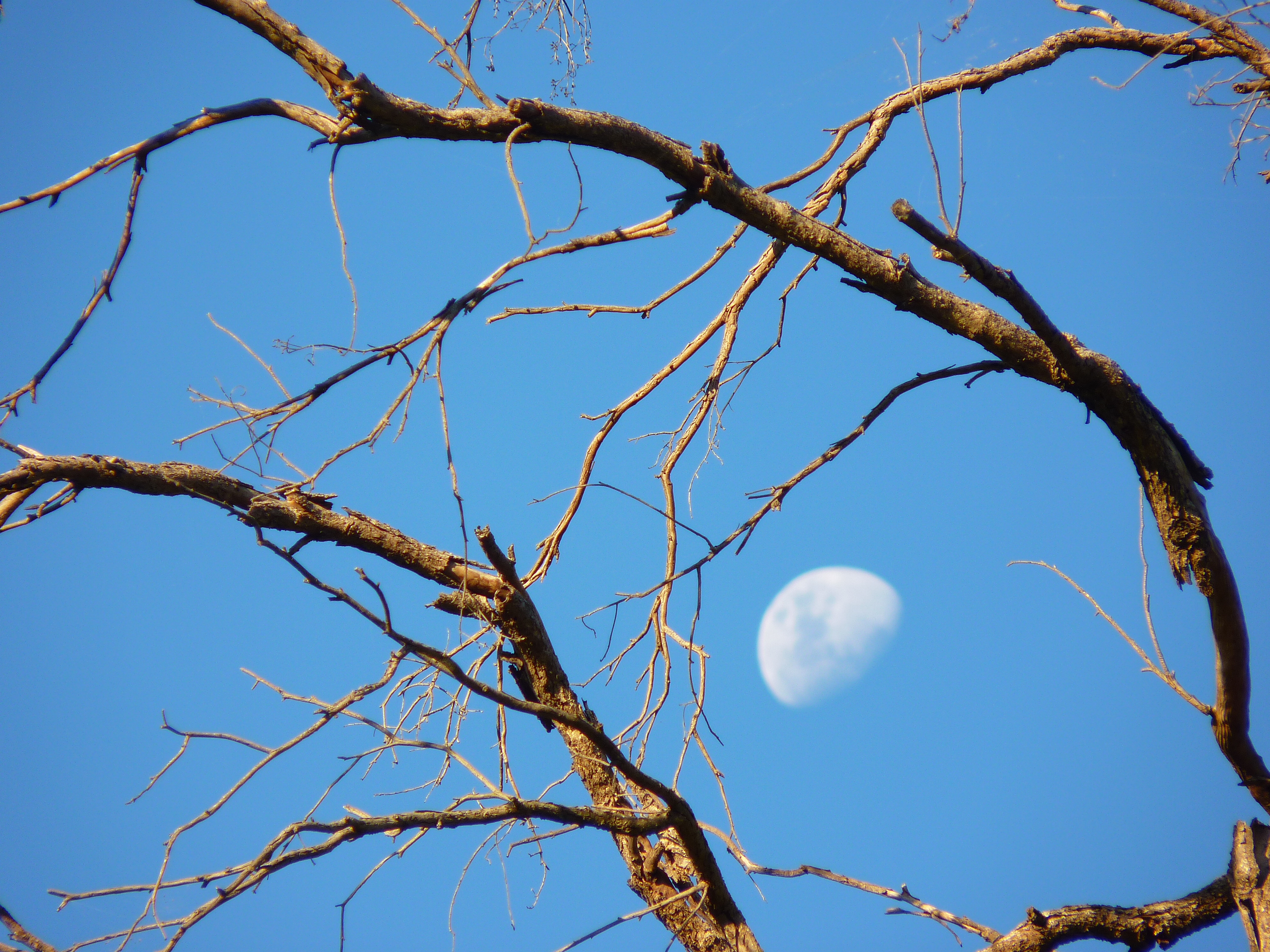 The moon in all its phases is easily viewed in 7th Brigade Park, Chermside.